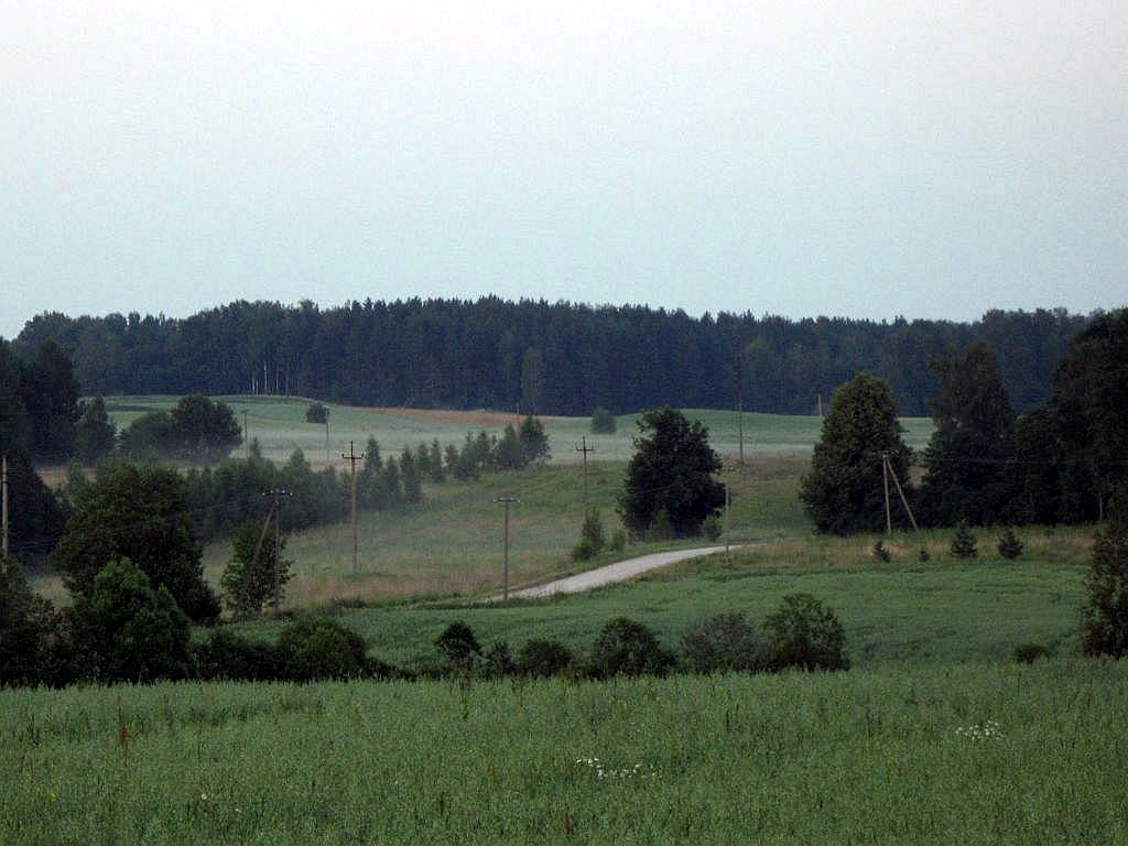 View to Laguja village. Photograph taken, by me, Tarmo Tanilsoo.